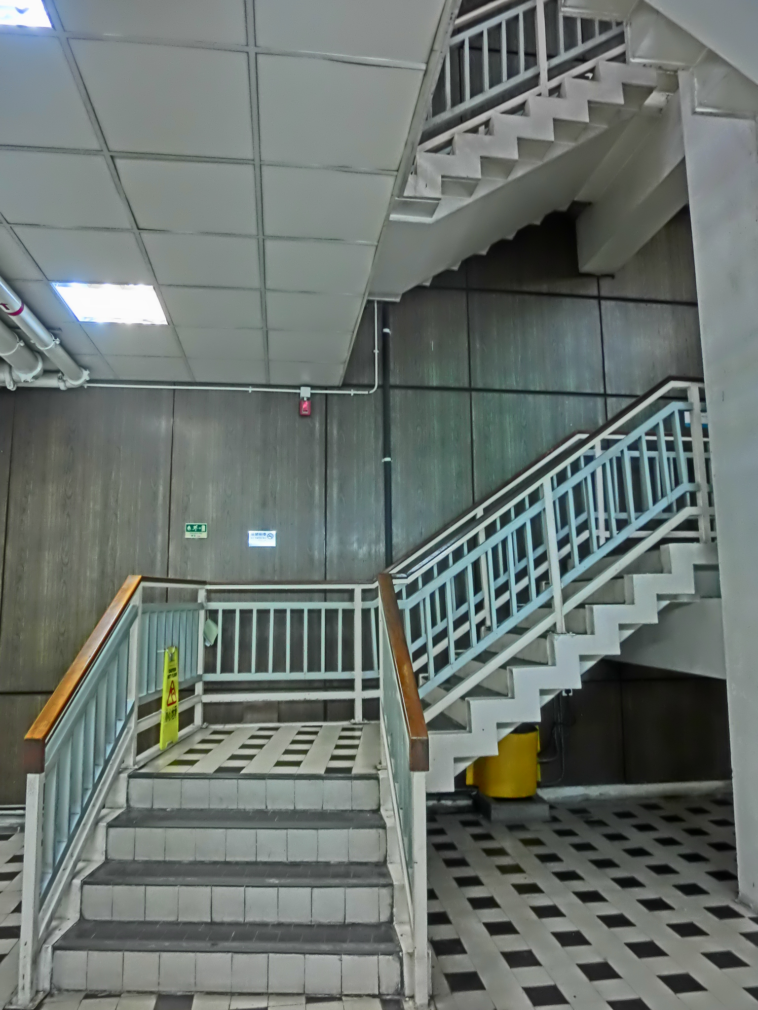 九龍中央郵政局, Kowloon Government Offices & the Kowloon Central Post Office, Yau Ma Tei, Hong Kong